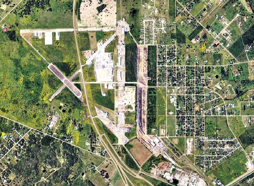 USGS digital orthophoto showing former site of Aloe Army Airfield in Victoria, Texas, United States.